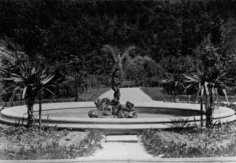 Töppergarten